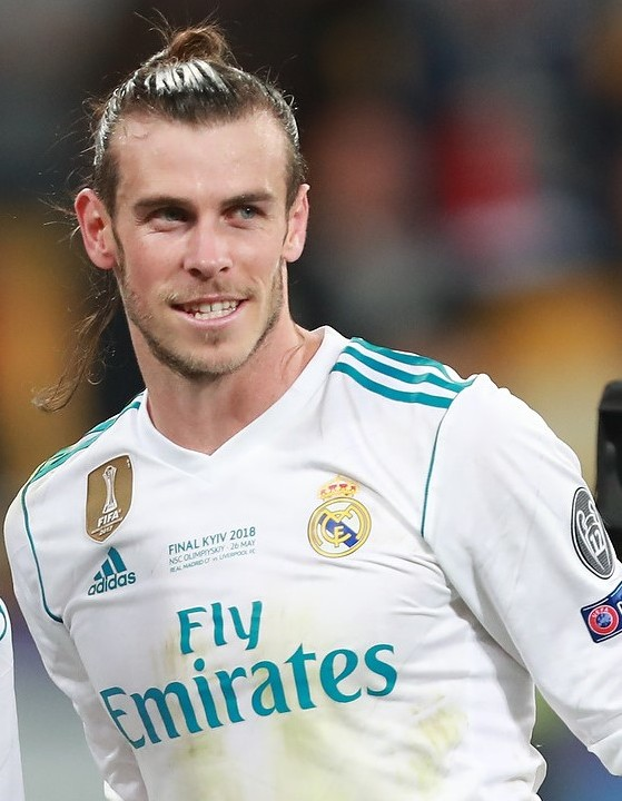 Luka Modrić, Gareth Bale